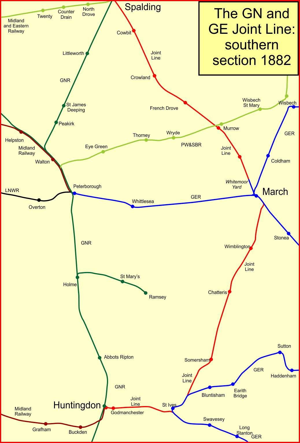 System map of the southern part of the GN and GE Joint Line, England, in 1879